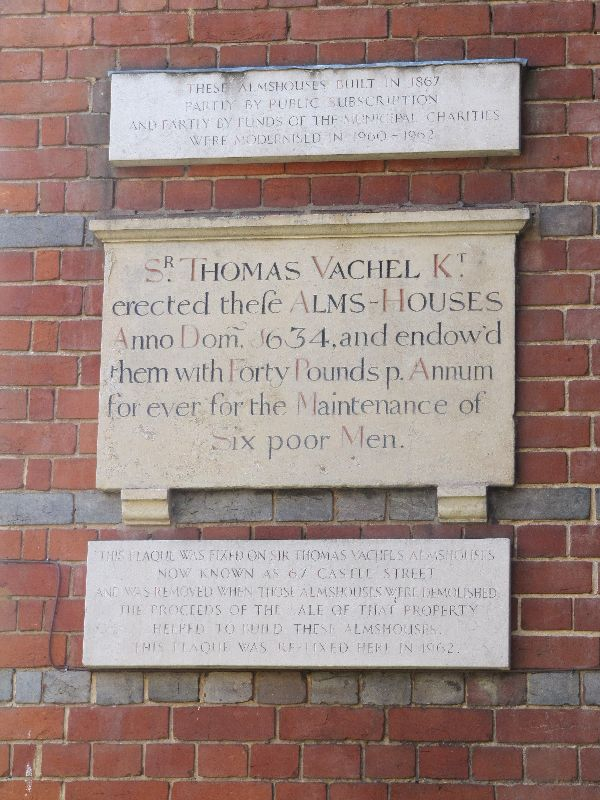 Plaques on the Almshouses, near to Reading, Great Britain. I had thought the Almshouses rather new and after reading the plaques I can see the reason.